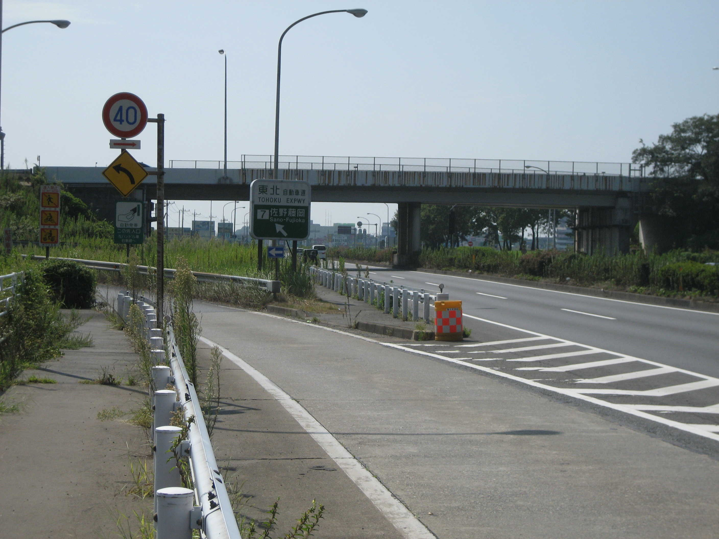 Entrance to Sano-Fujioka Interchange on the Tohoku Expressway